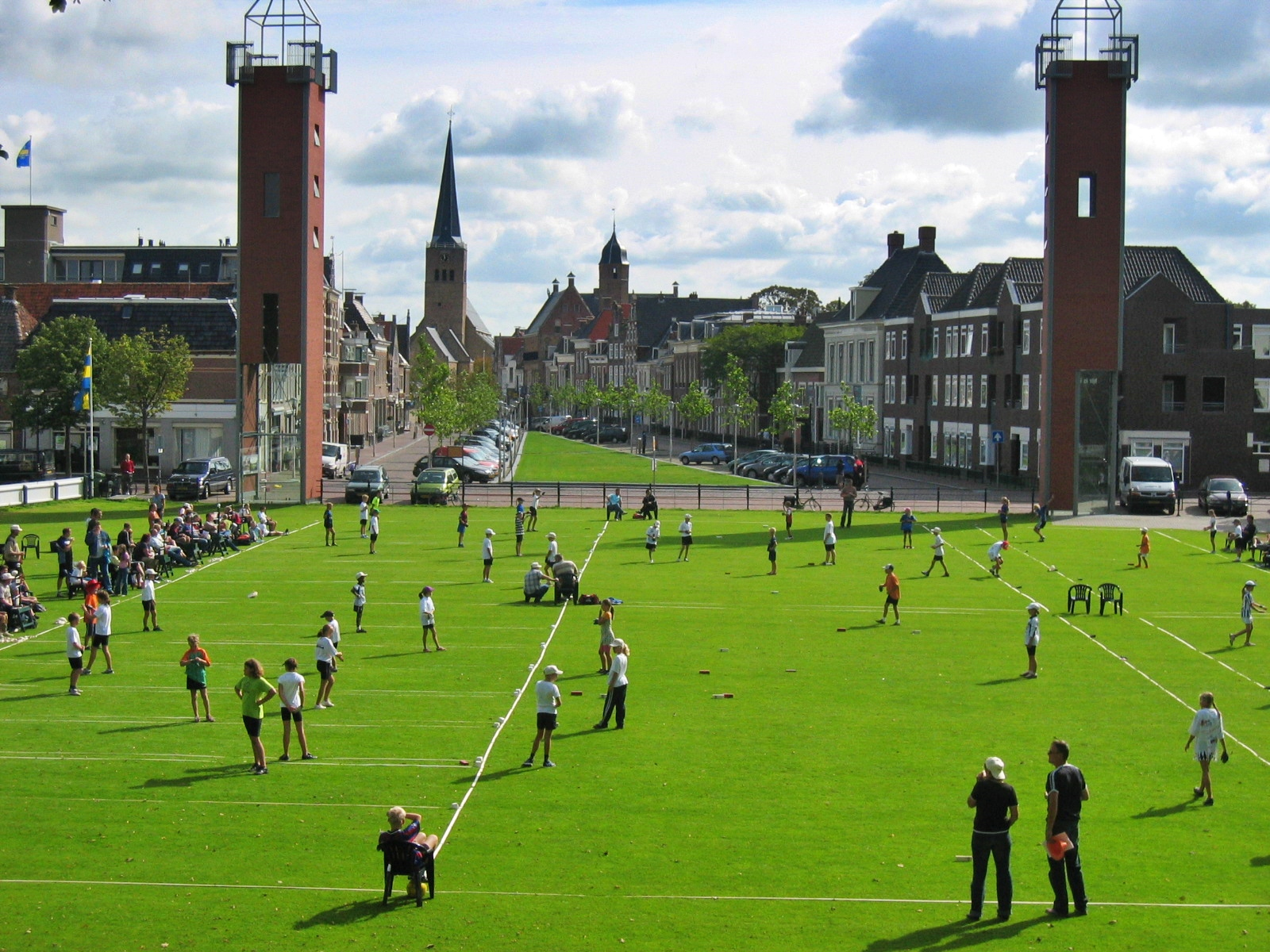 Stadium for the ballgame "Kaatsen" in Franeker, Friesland, Netherlands